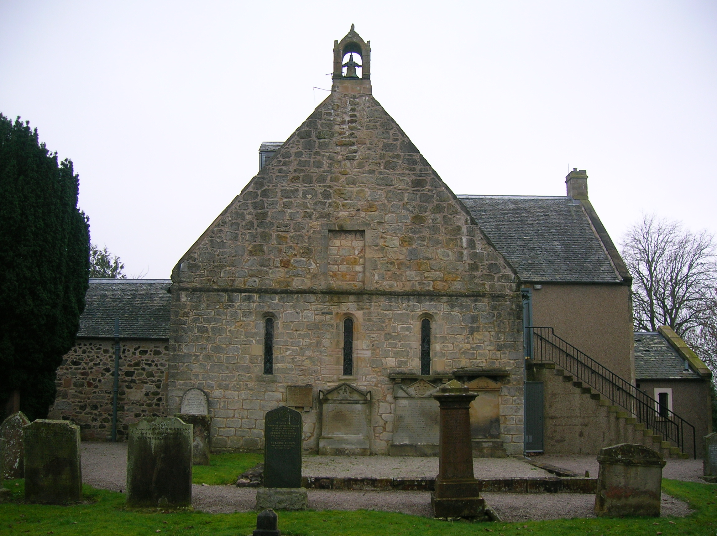 East facing gable end of Symington Church, South Ayrshire, Scotland.